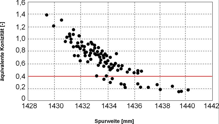 Dependence of the equivalent conicity from gauge